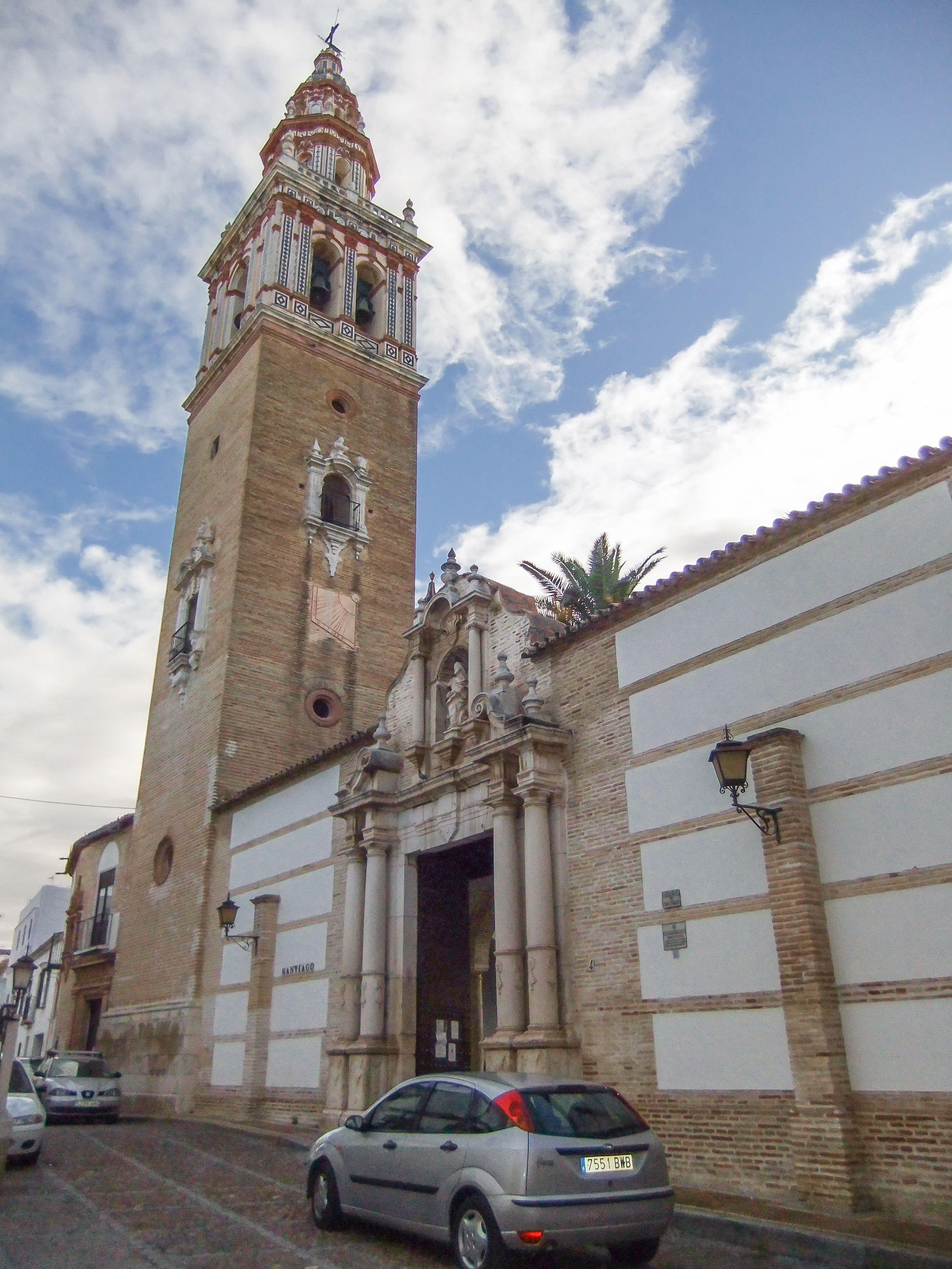 Santiago Church Écija Spain